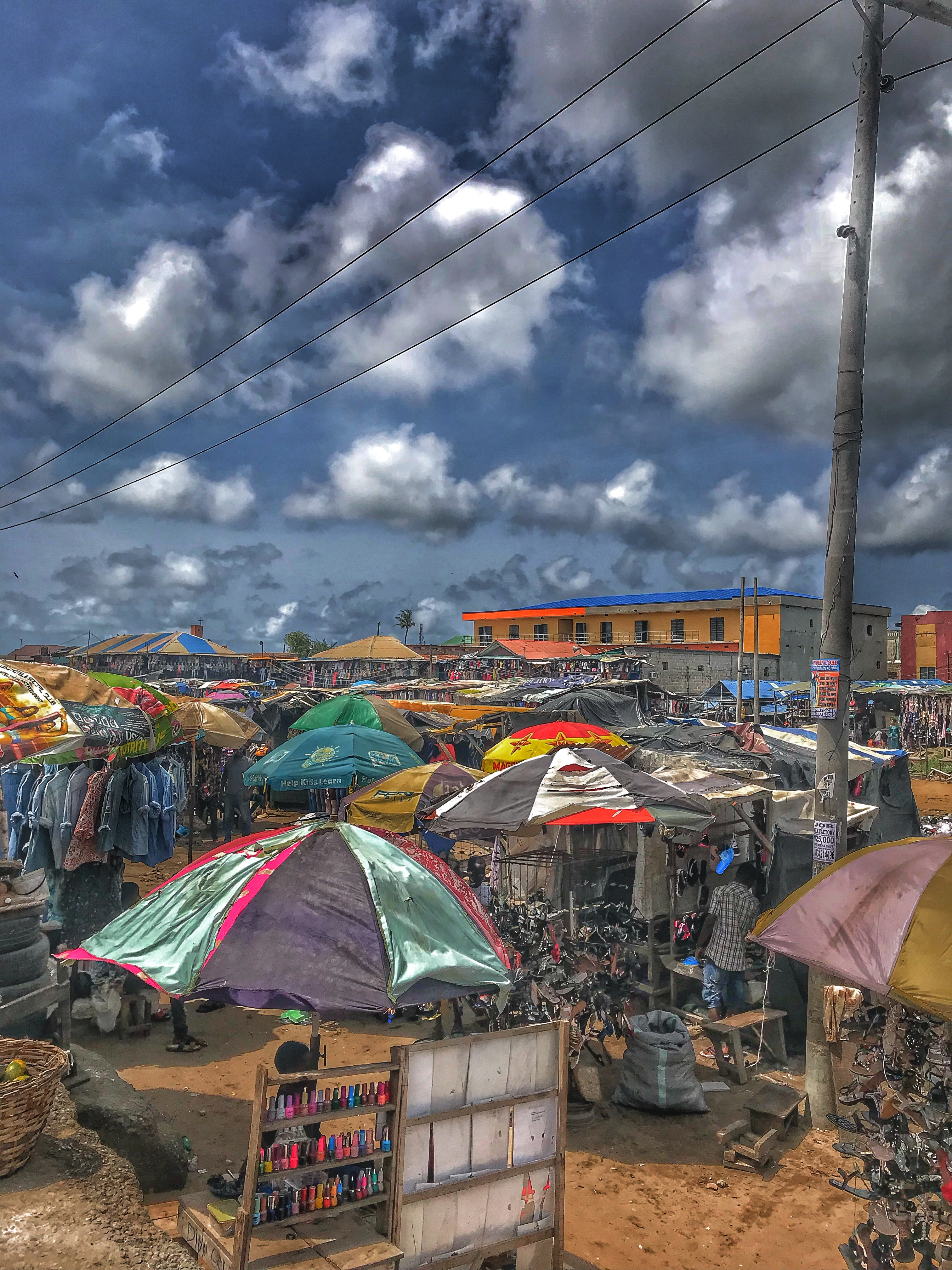 A market in Lagos. A part iyana oba